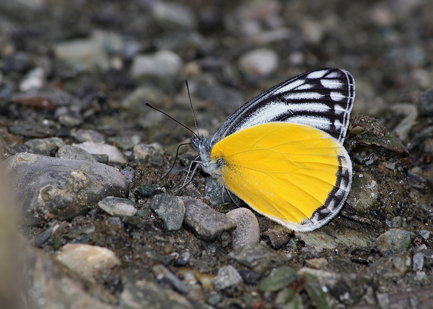 Close wing of Delias agostina Hewitson, 1852 – Yellow Jezebel